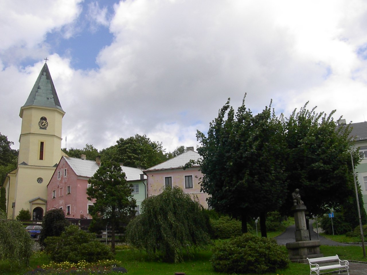 Church of Saint Margaret near town square of Lázně Kynžvart, Cheb District, Czech Republic.